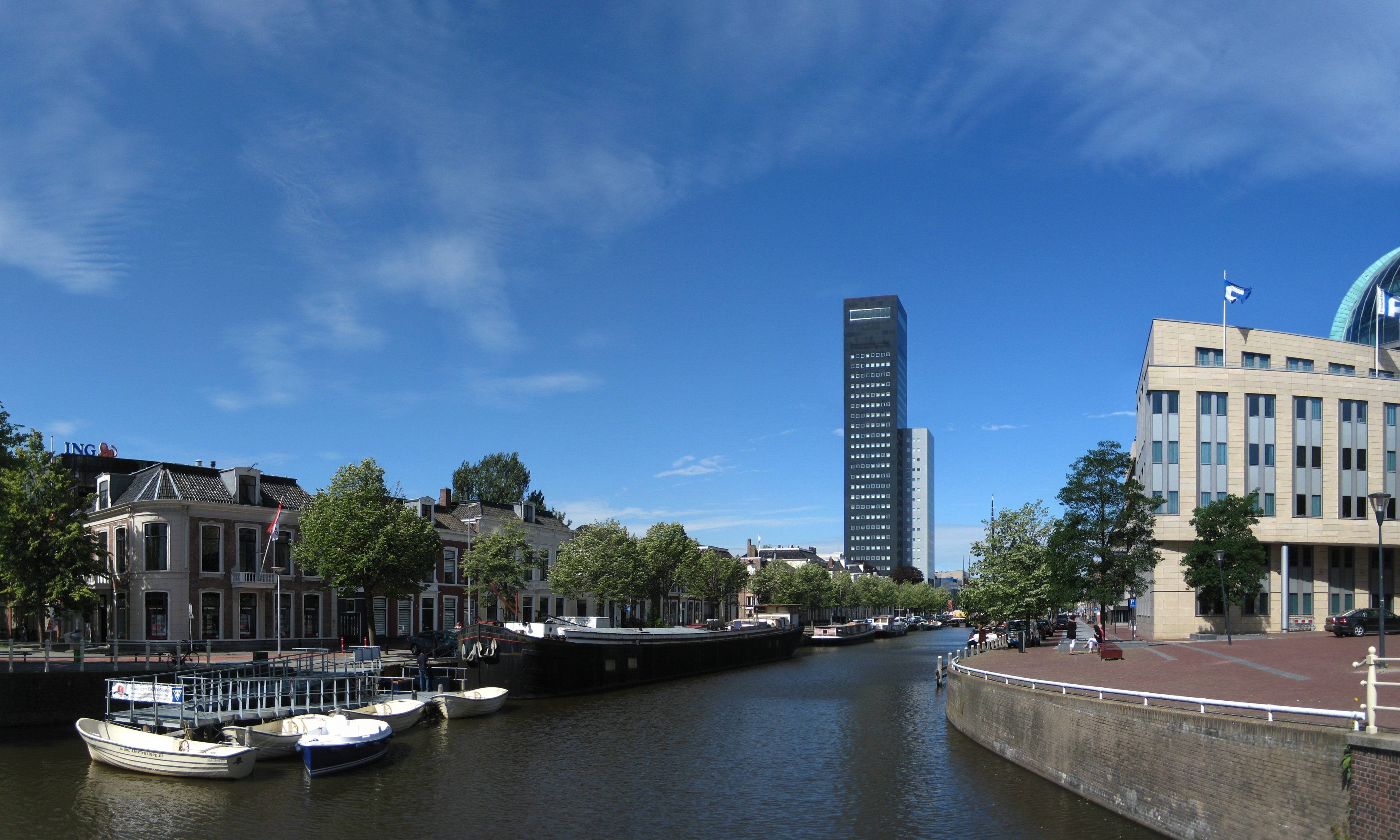 The Willemskade in Leeuwarden, the capital of the Dutch province of Fryslân.